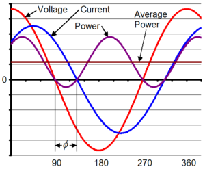 Instantaneous and average power calculated from AC voltage and current with a lagging power factor. by C J Cowie using MS Excel,MicroGrafx Designer and Adobe Photoshop Elements